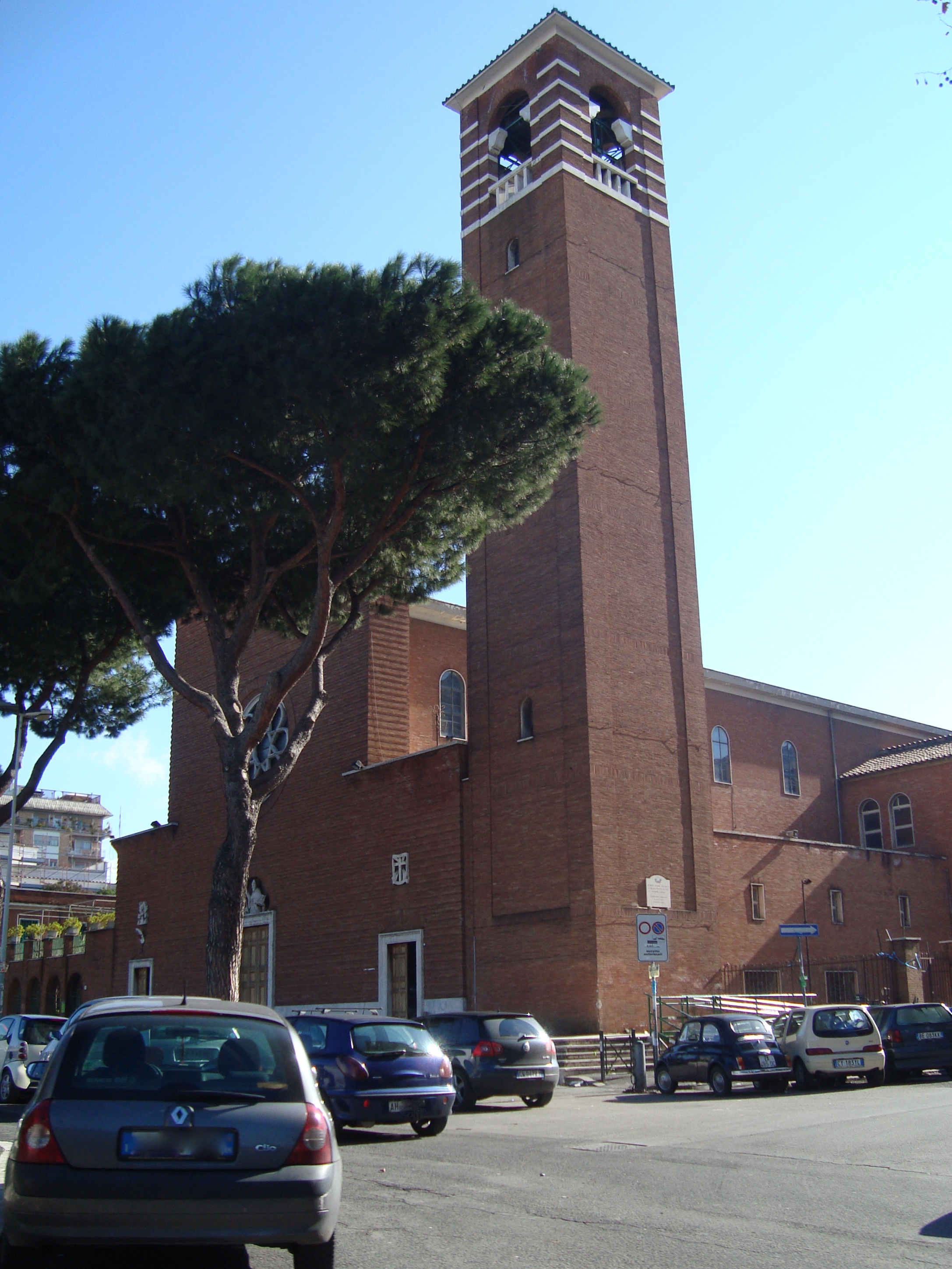 The Church San Leone I in the quatiere Prestino-Labicano